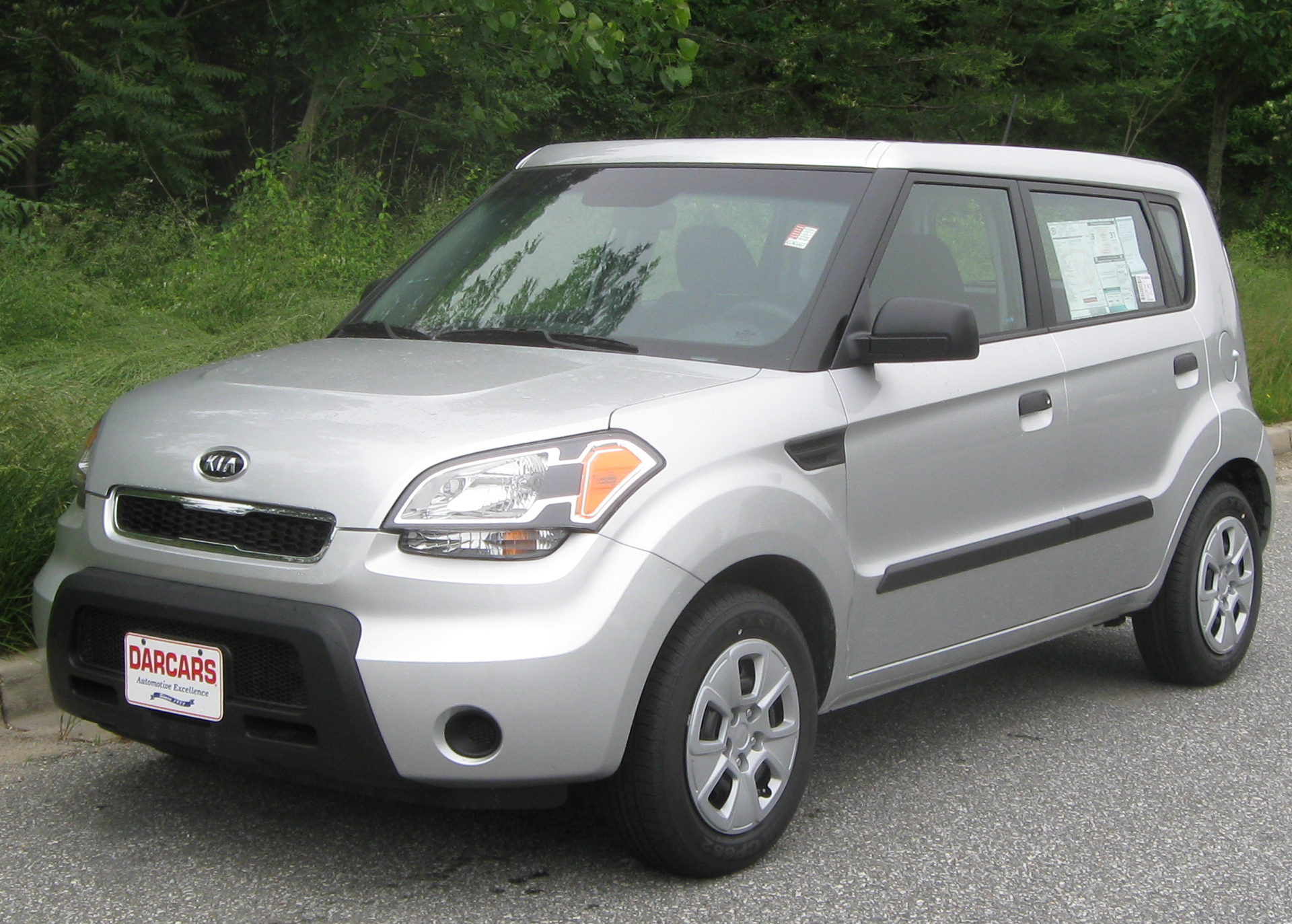 2010 Kia Soul photographed in Temple Hills, Maryland, USA.